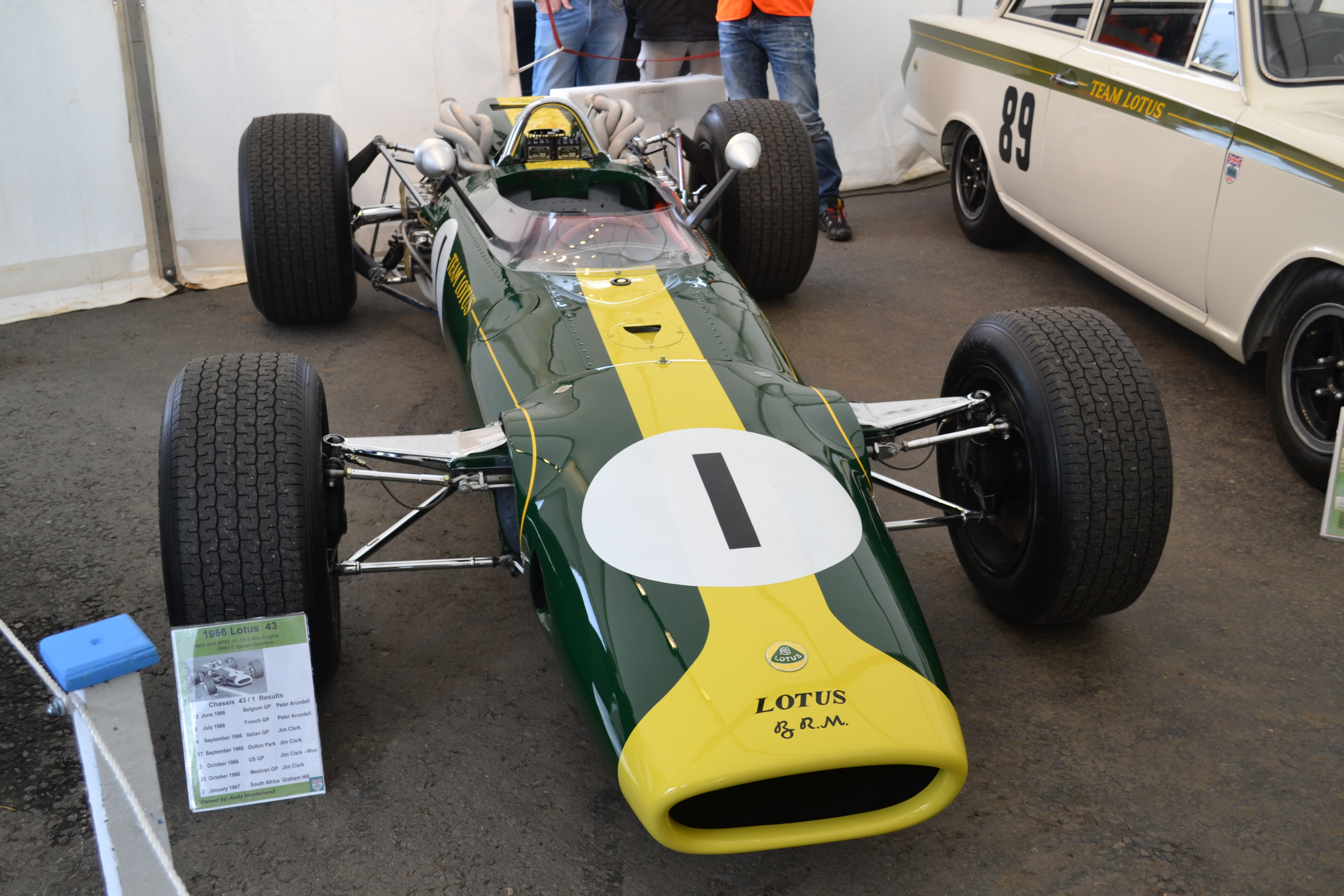 Lotus 43 at BTCC Knockhill 2014 - front view